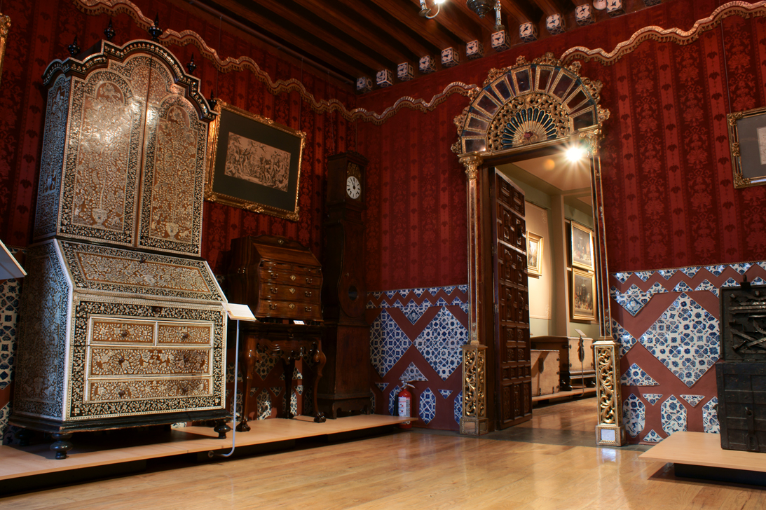 Red Salon — interior of the Museo José Luis Bello y González, in the City of Puebla, México.